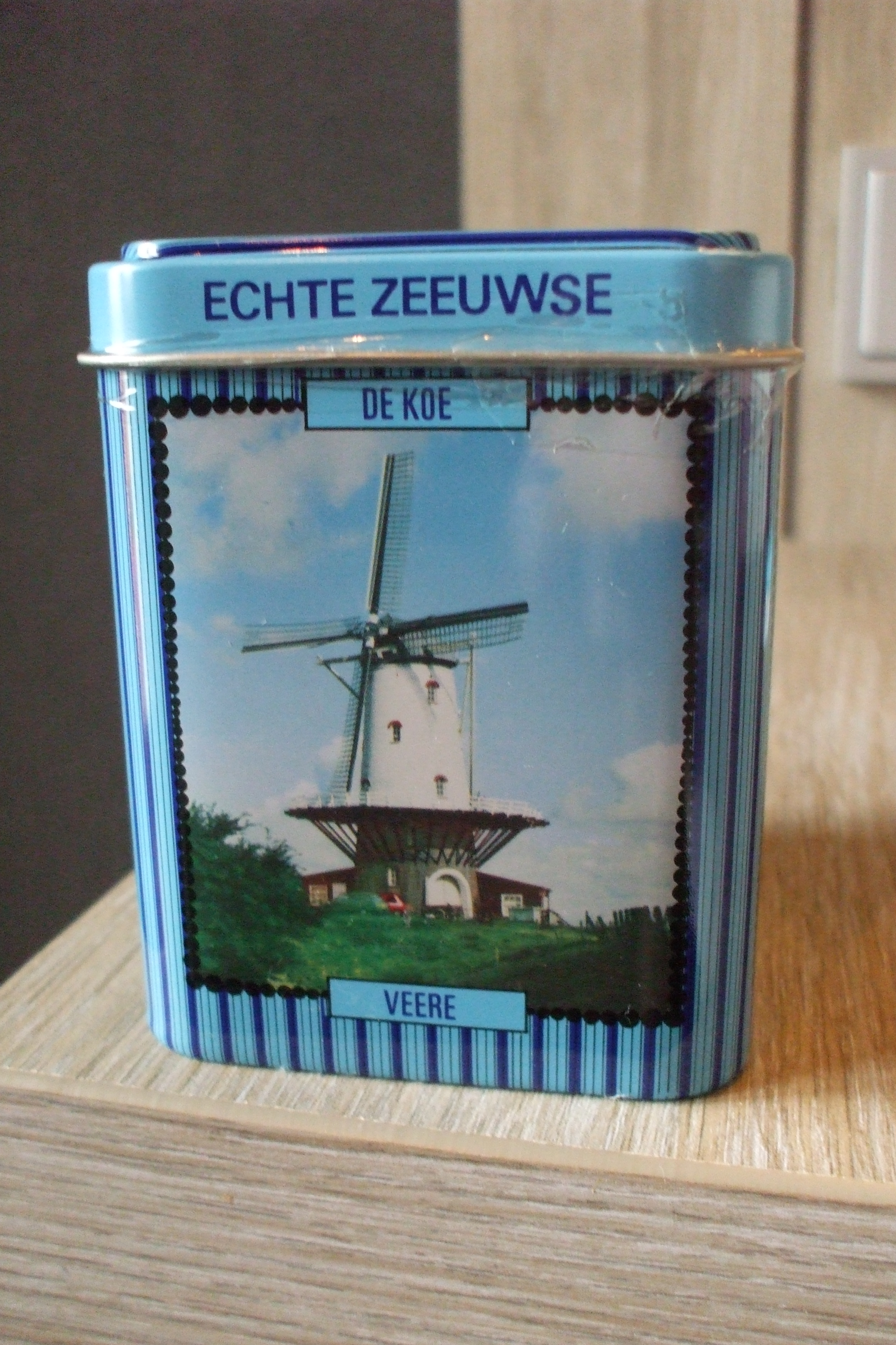 A tin with the Dutch butter candies.